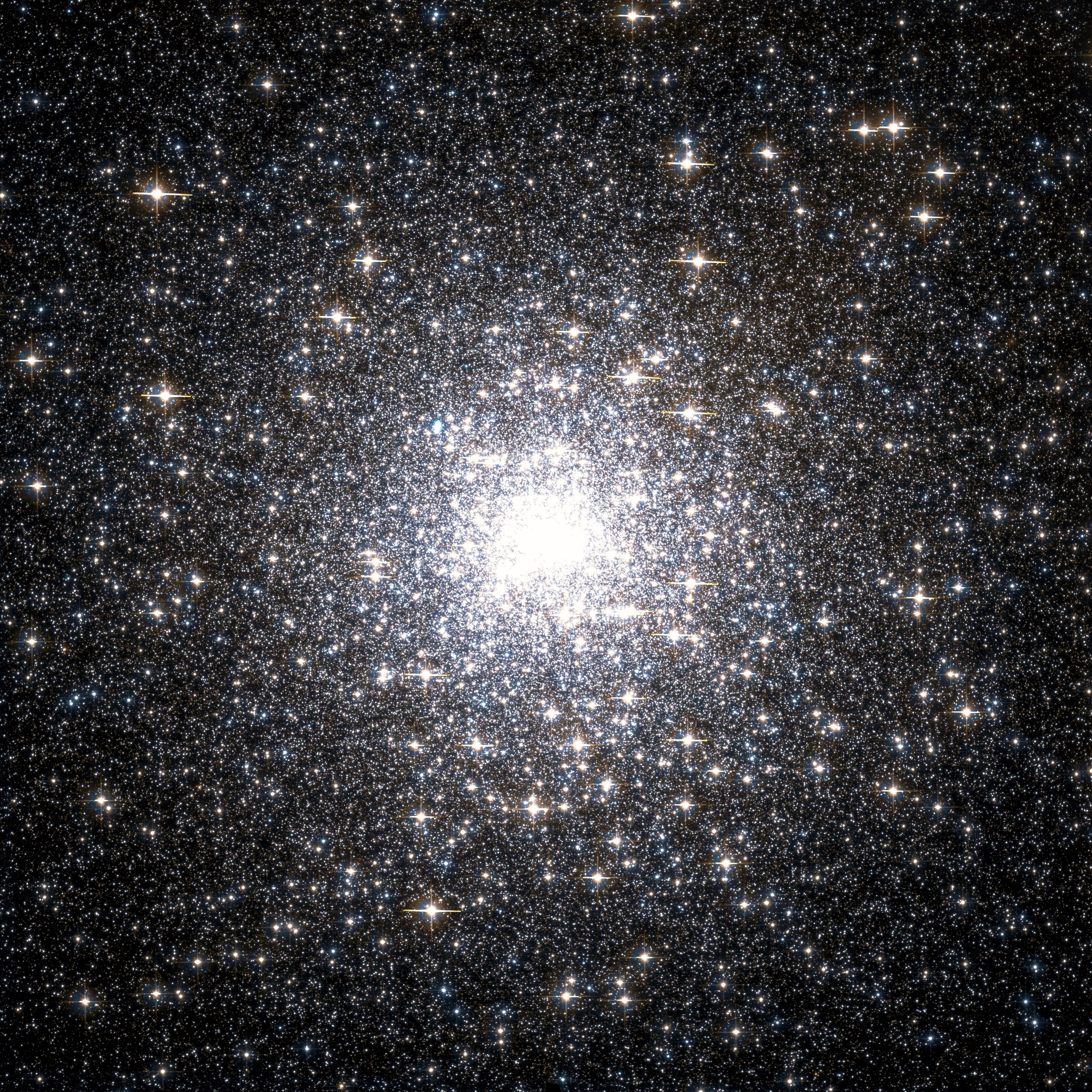 Messier 15 by Hubble Space Telescope; 3.4′ view